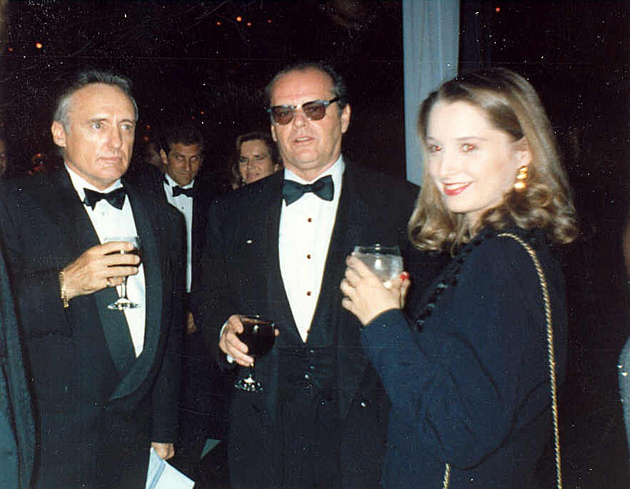 Photo taken at the 62nd Academy Awards 3/26/90 - Permission granted to copy, publish or post but please credit "photo by Alan Light" if you can